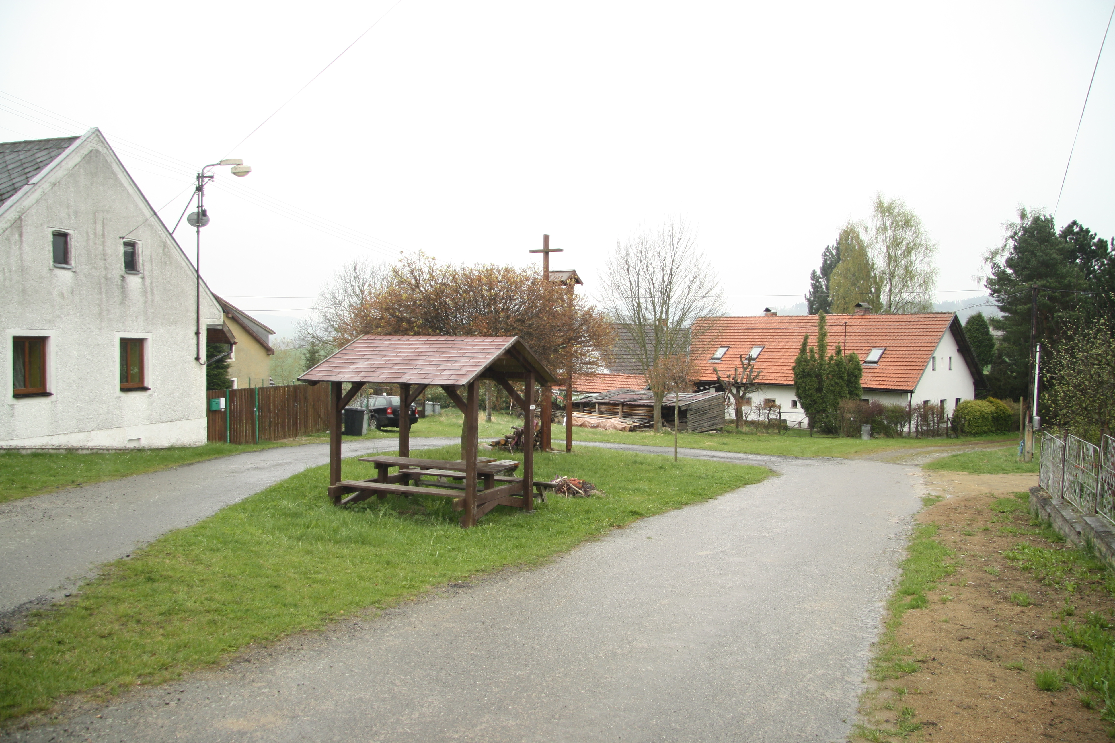 Center of Střítež, Kolinec, Klatovy District.